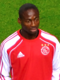 Eyong Enoh during warm-up for Ajax - Olympique Lyon on September 14th, 2011.